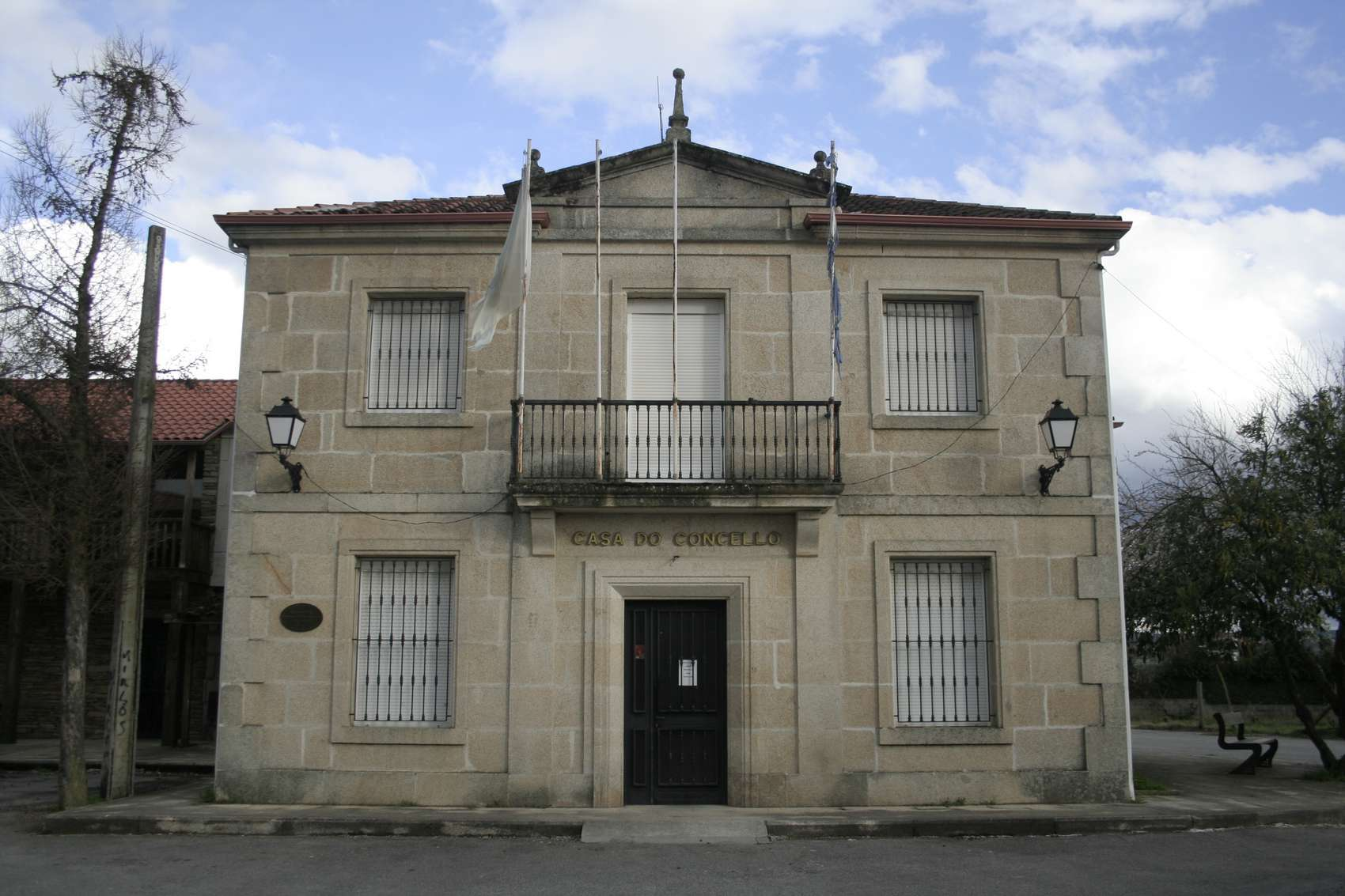 Town Hall in Castrelo do Val (Spain)